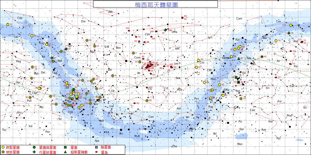 Star chart of the Messier objects (Chinese title and legend}.